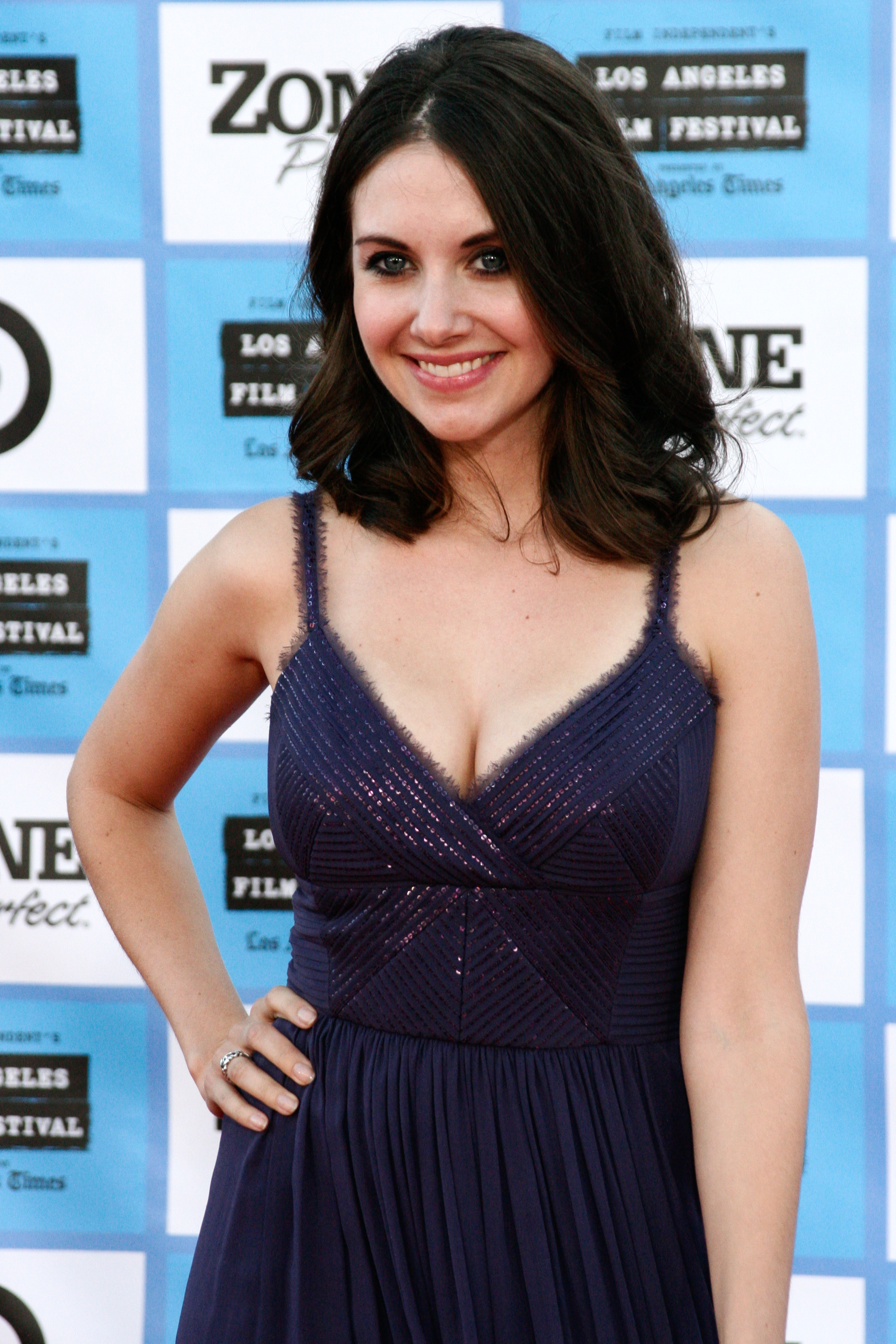 Alison Brie